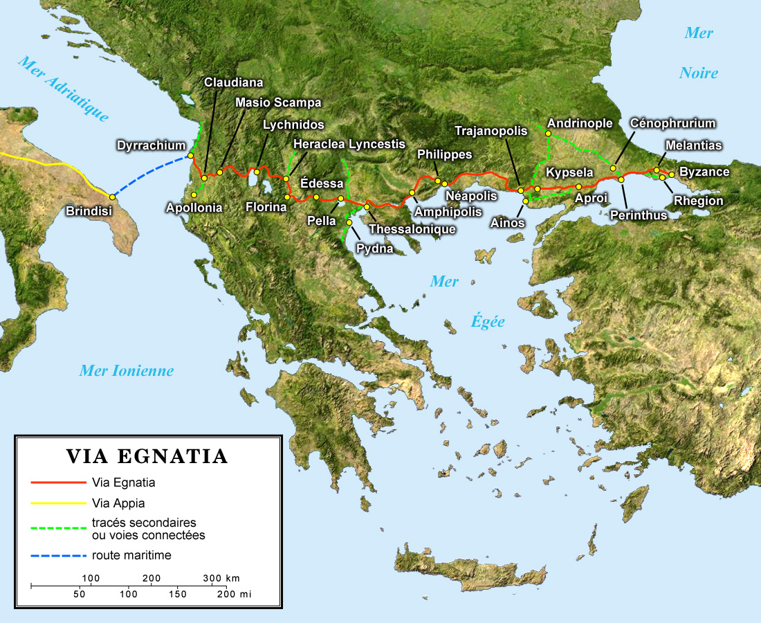 Map in French of the antic Roman Via Egnatia crossing the South of the Balkans.